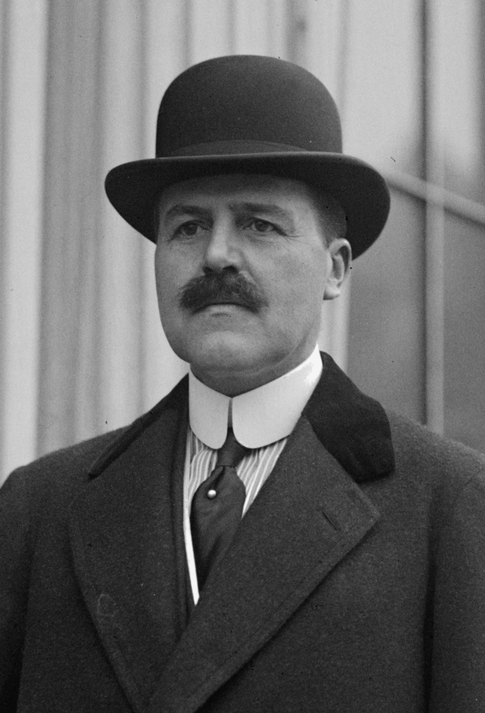 Title: Peter Augustus Jay, [1/5/23] Abstract/medium: National Photo Company Collection (Library of Congress) Physical description: 1 negative